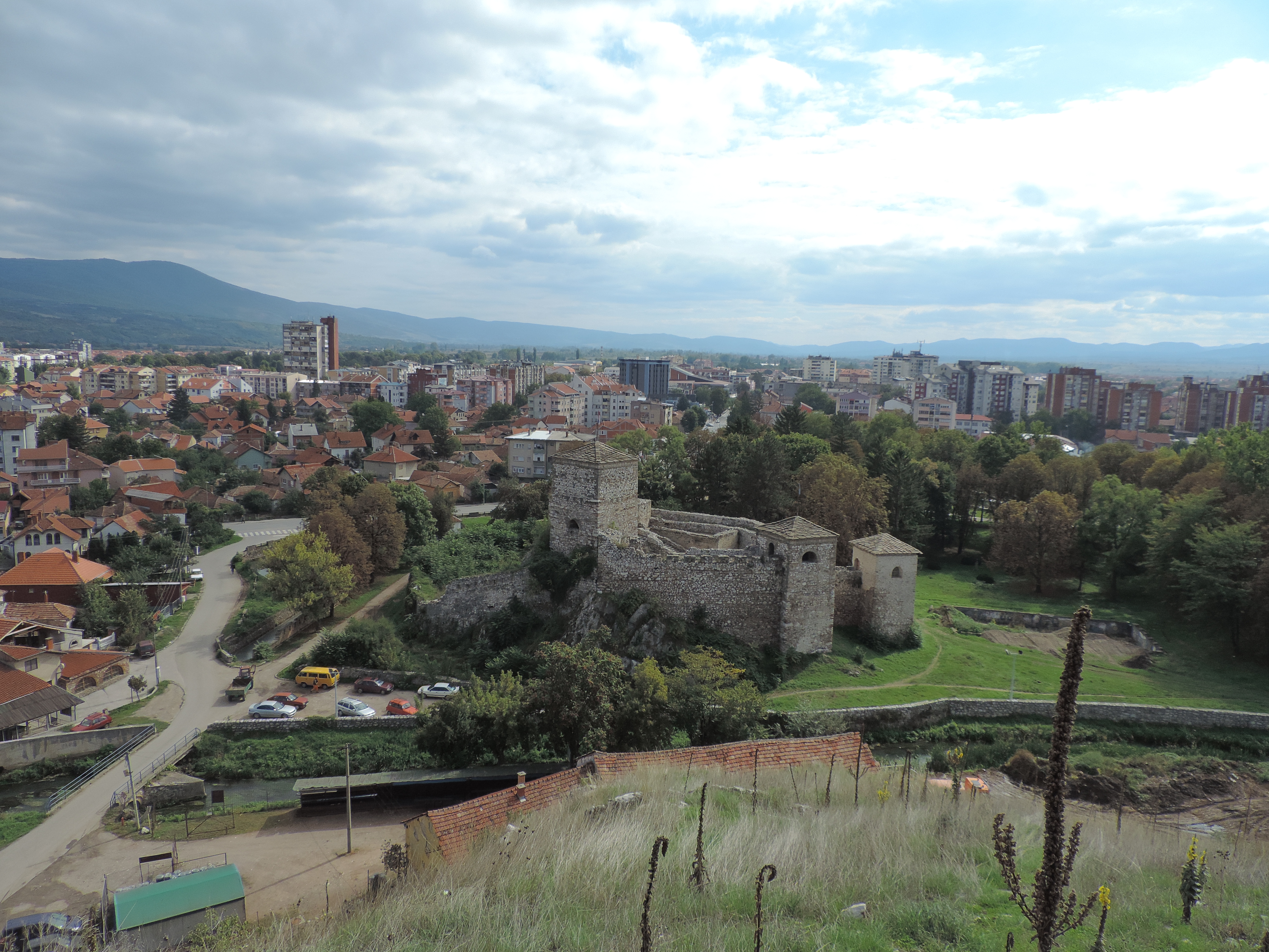 Pirot Fortress